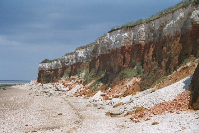 The sedimentary layers at Hunstanton